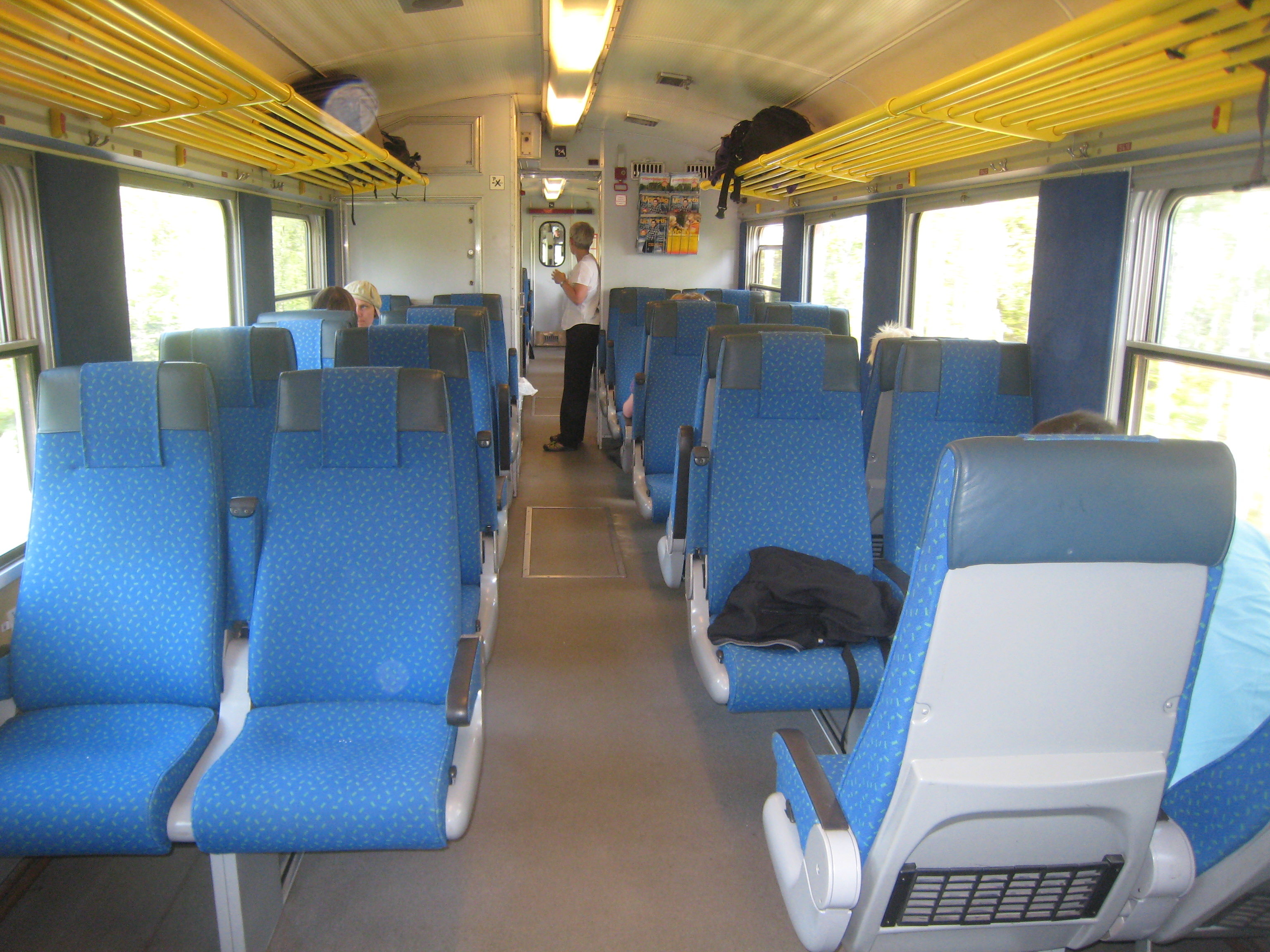 Y1 train at Inlandsbanan.